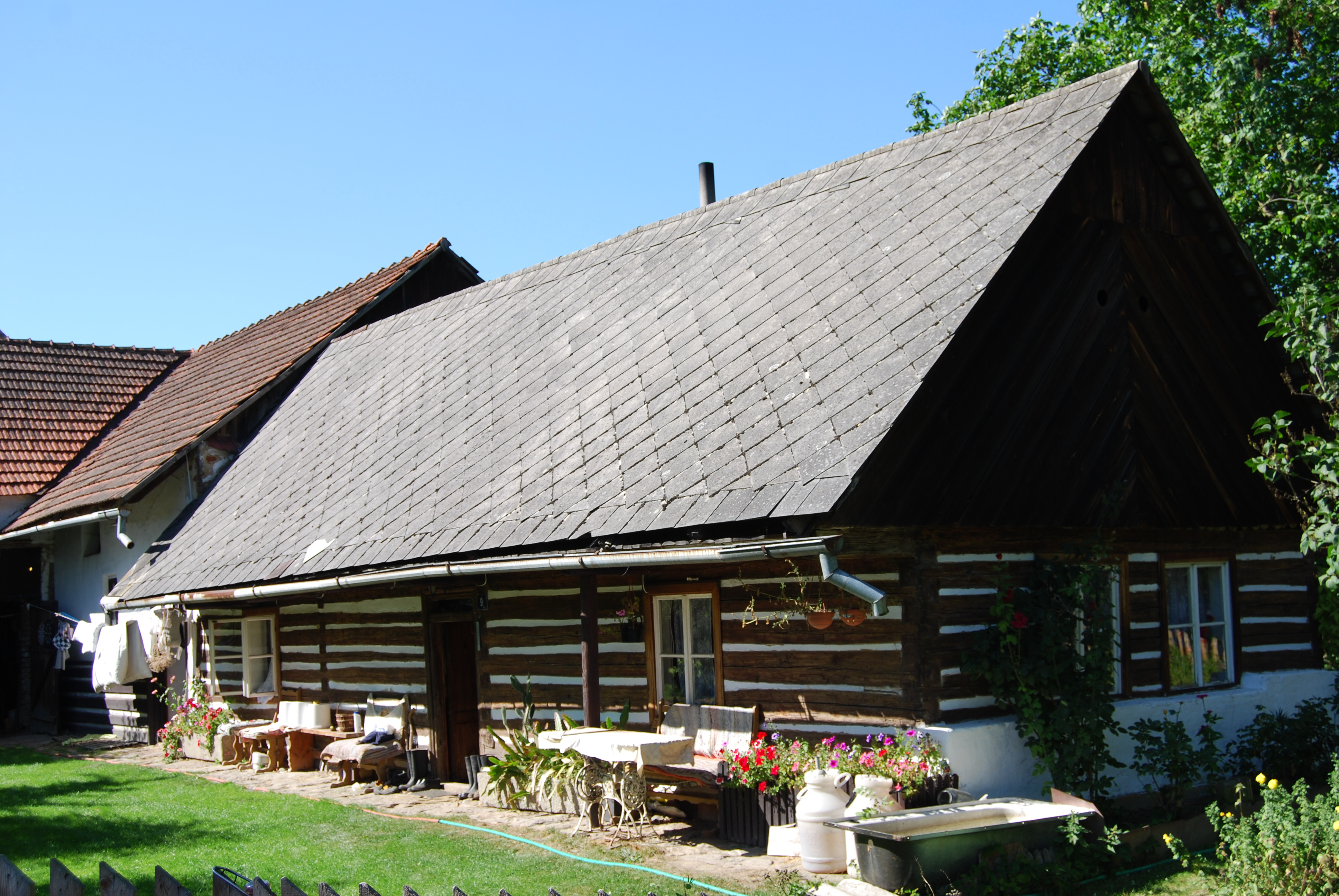 Svatkovice village in Pisek District, Czech Republic. Part of village Bernartice.